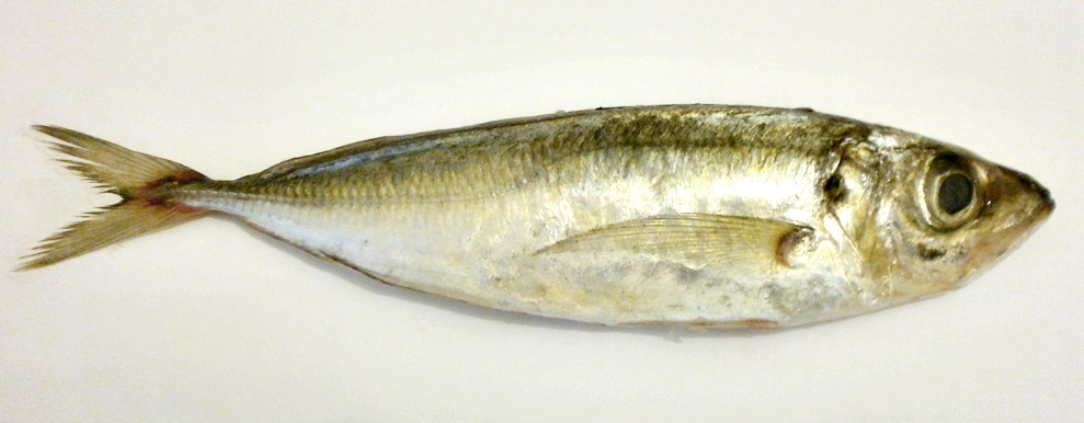 Mediterranean horse mackerel (Trachurus mediterraneus).